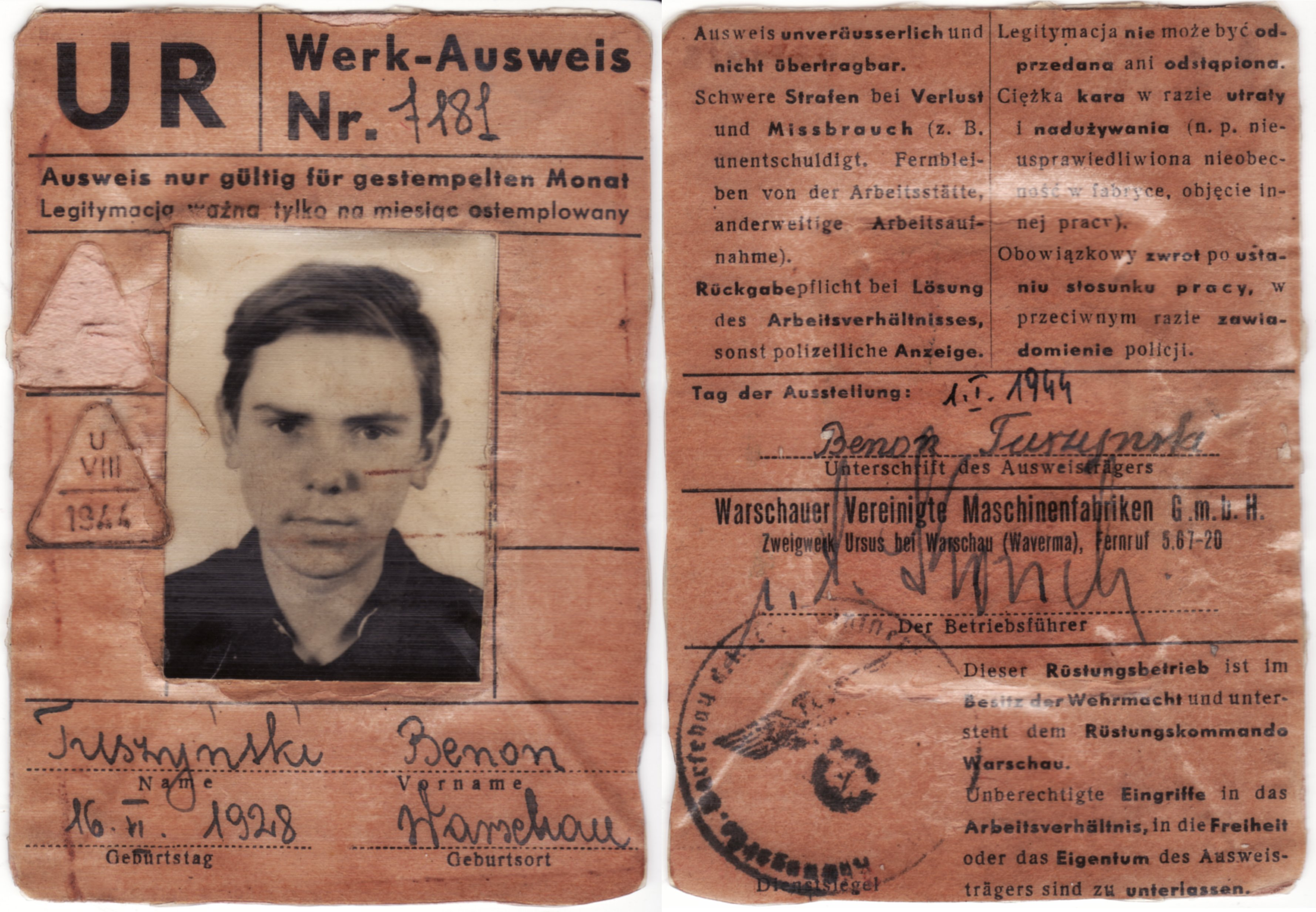 Benon Tuszynski's Ausweis from Ursus factory in Warsaw